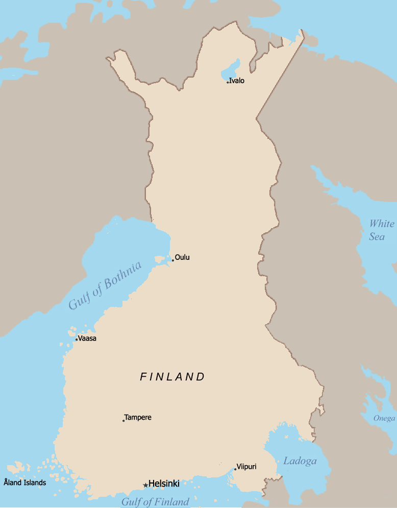 Finland in 1920. Made from JNiemenmaa's map base.